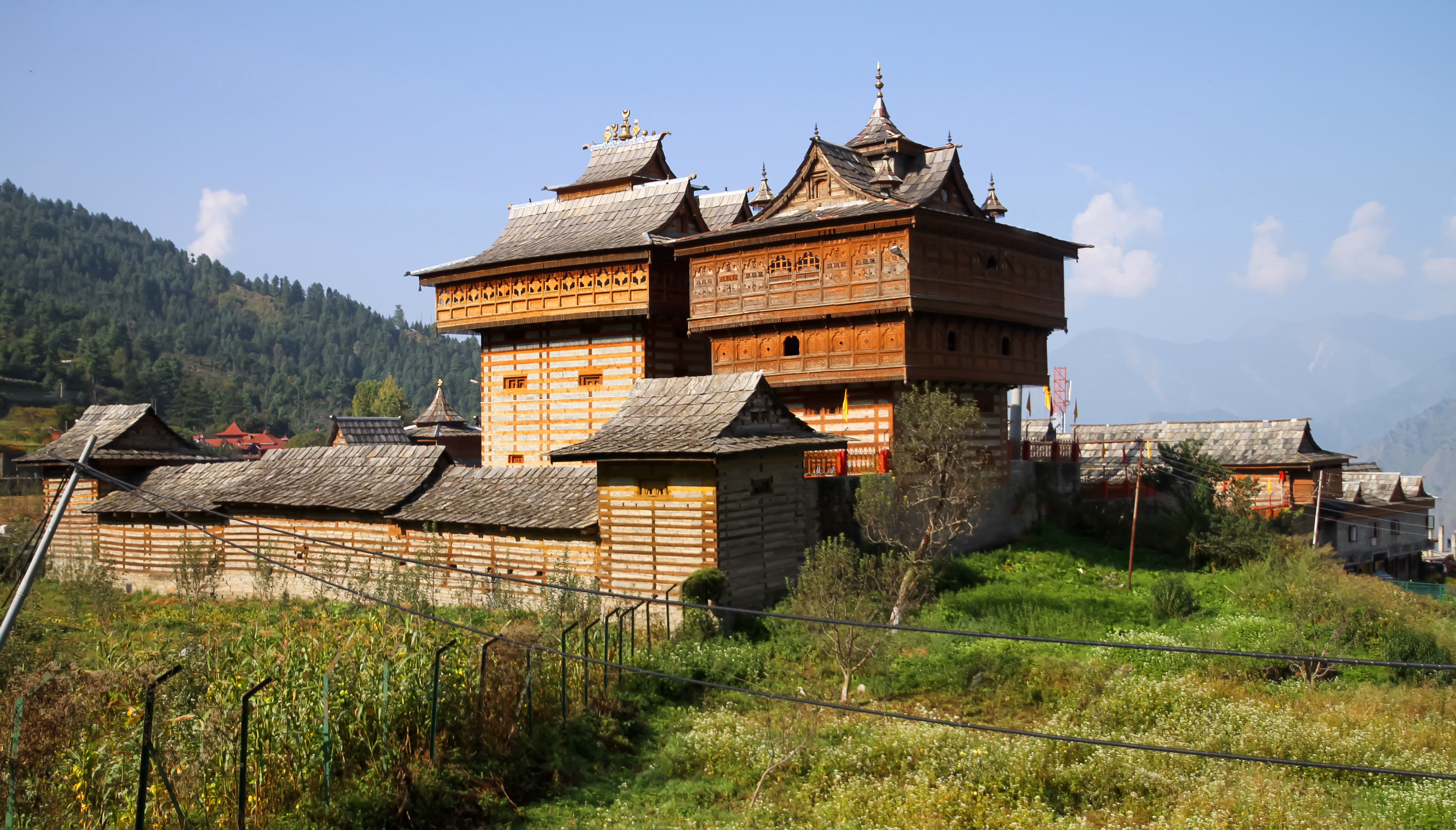 Sarahan Bhimakali temple in Himachal Pradesh in India.